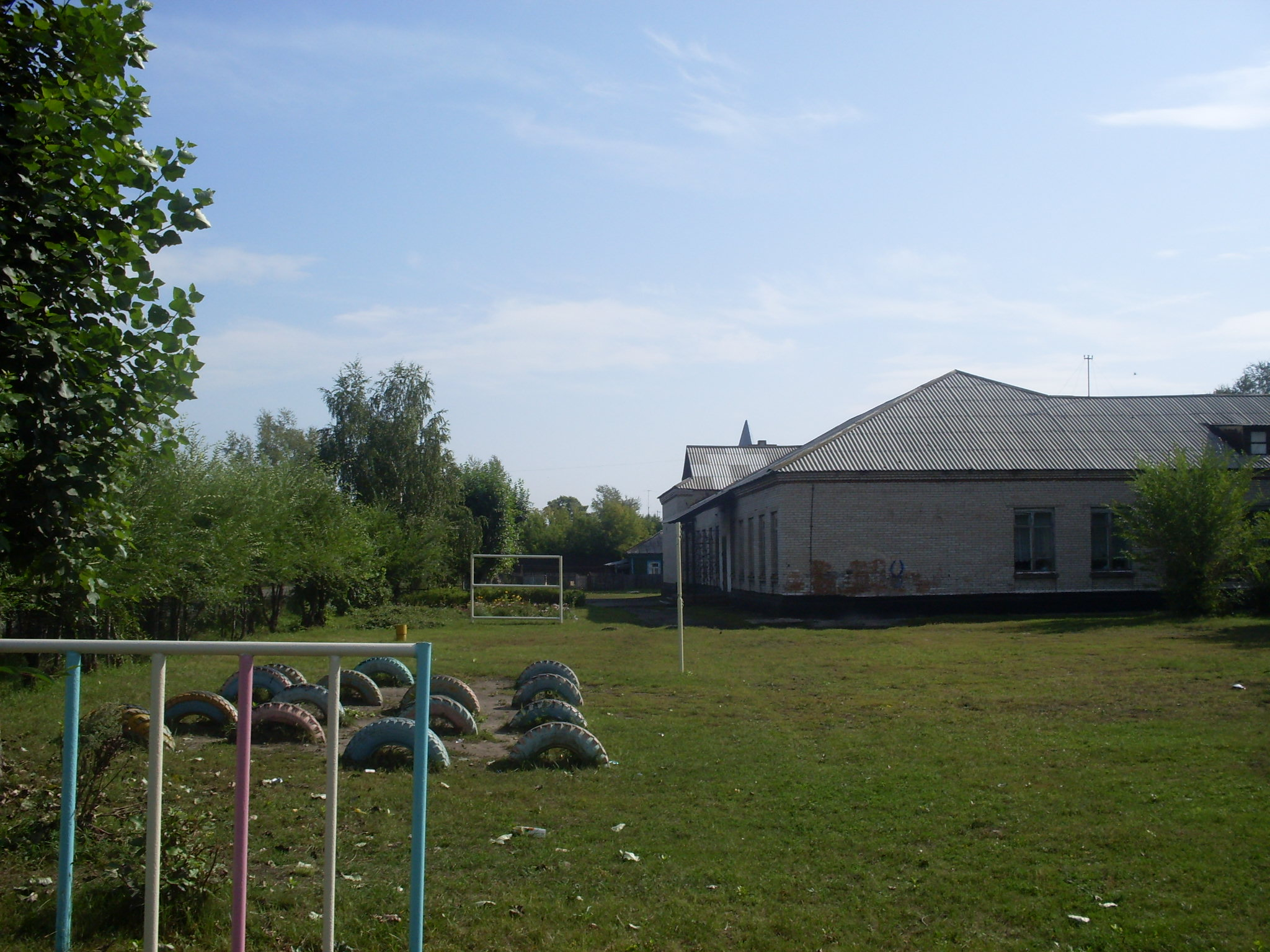 School in Borzovaya Zaimka, Russia